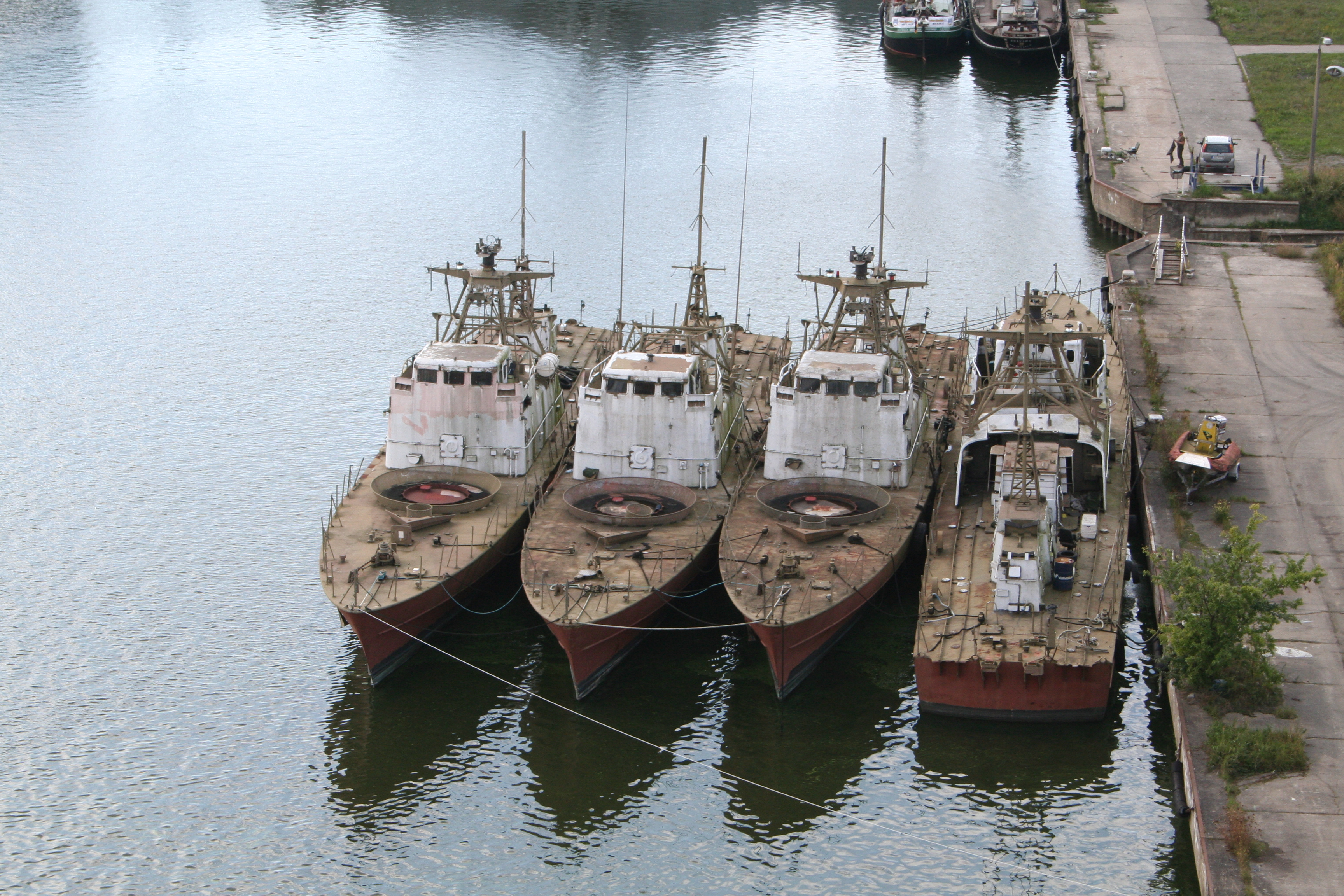 Peenemünde harbour